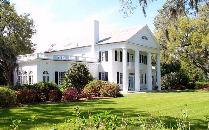 Orton House and gardens — on the Orton Plantation, Located in Smithville Township, Brunswick County, North Carolina. Built in the Greek Revival style in 1735.